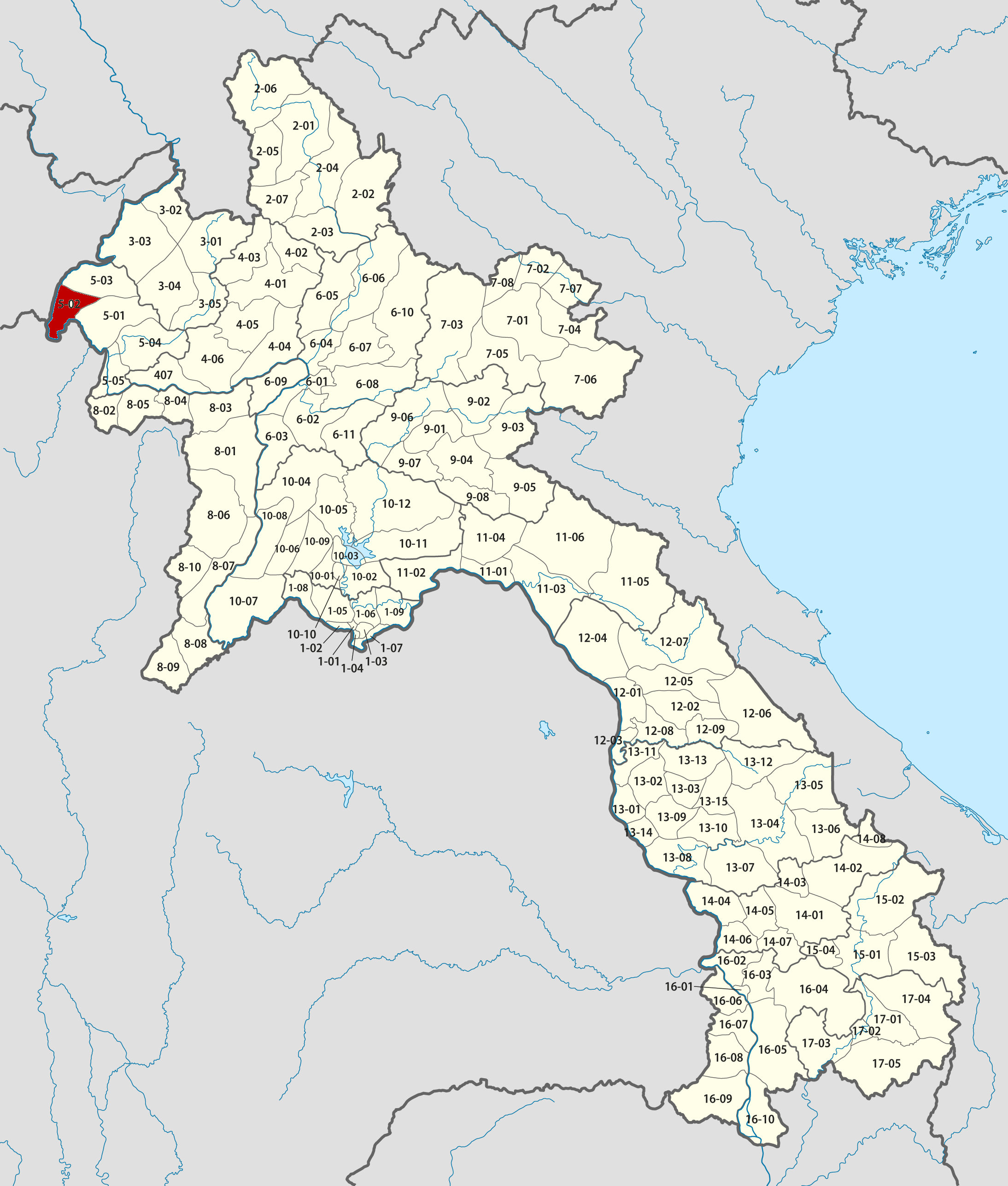 Tonpheung District in Laos